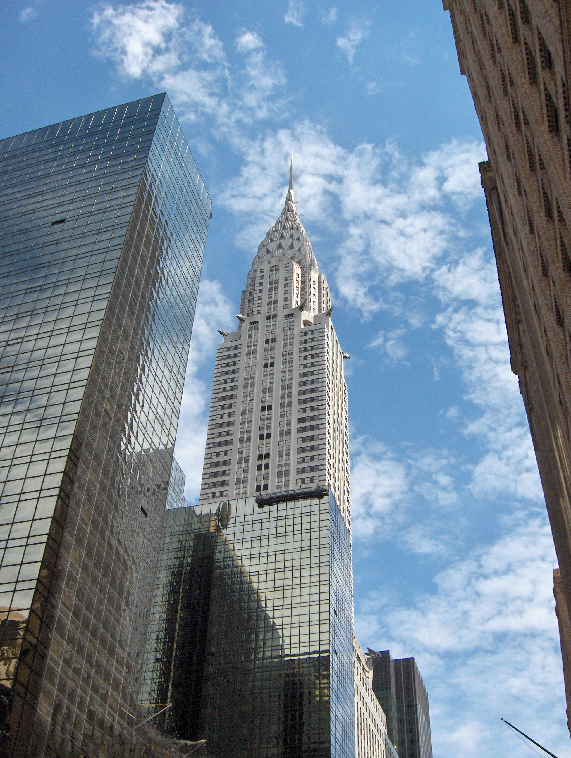 Chrysler Building, New York City